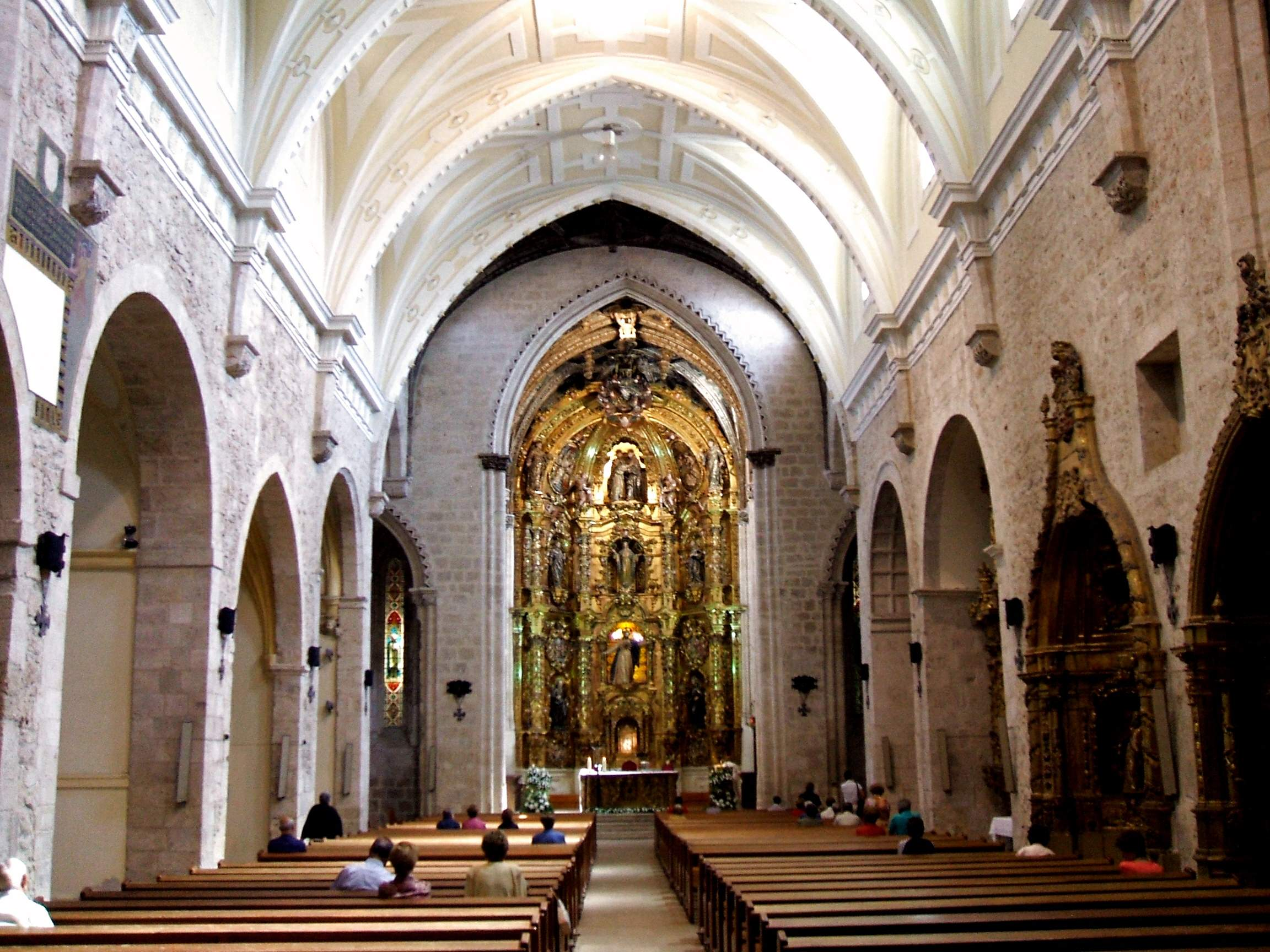 Iglesia de San Francisco, Palencia (Castilla y León, España)